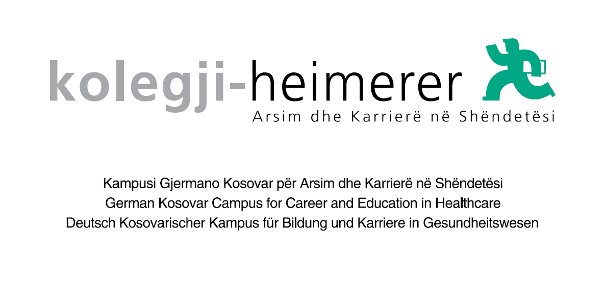 Logoja e Kolegjit Heimerer